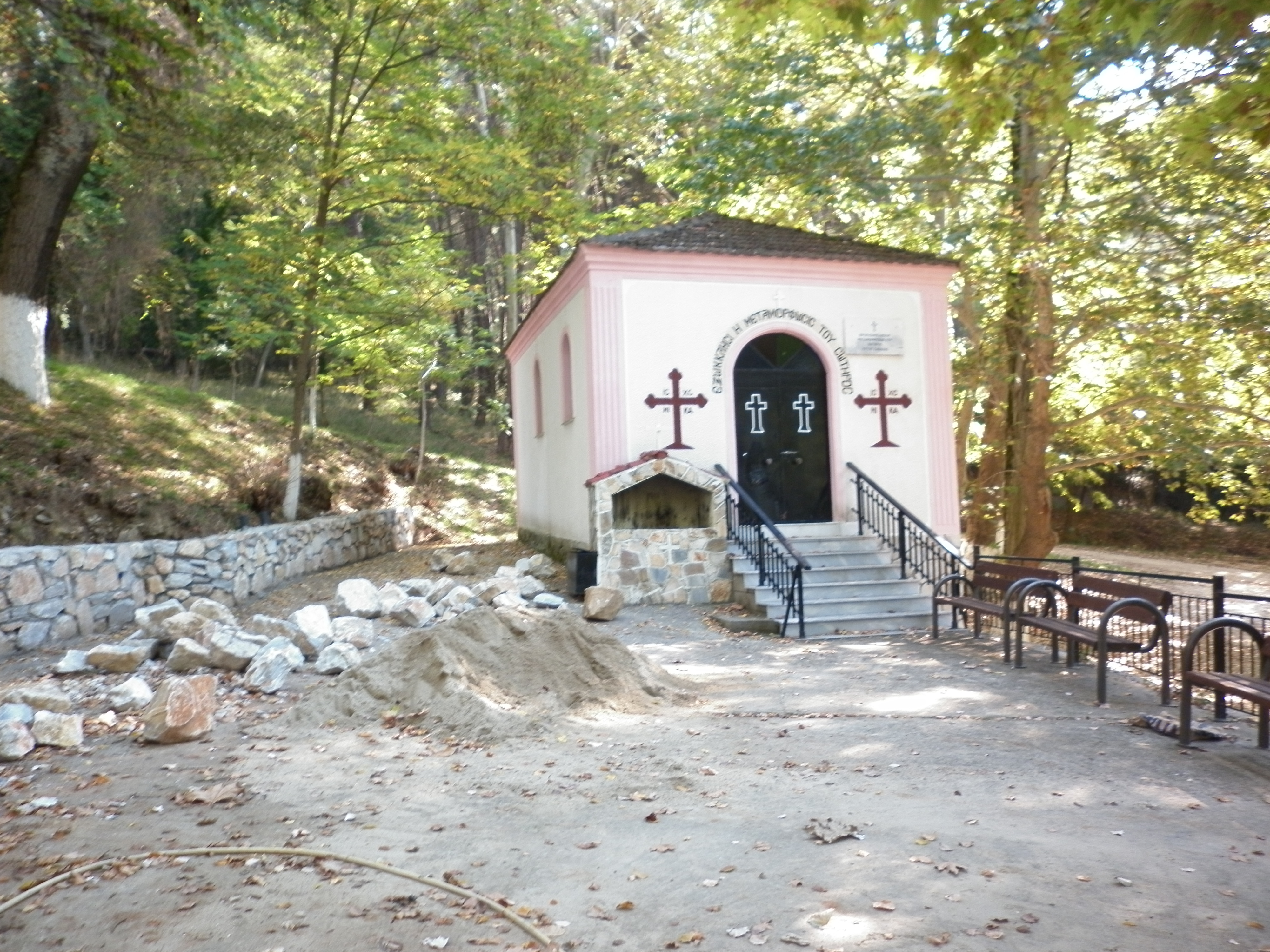 Metamorfosi chrurch, Zygos, Kavala